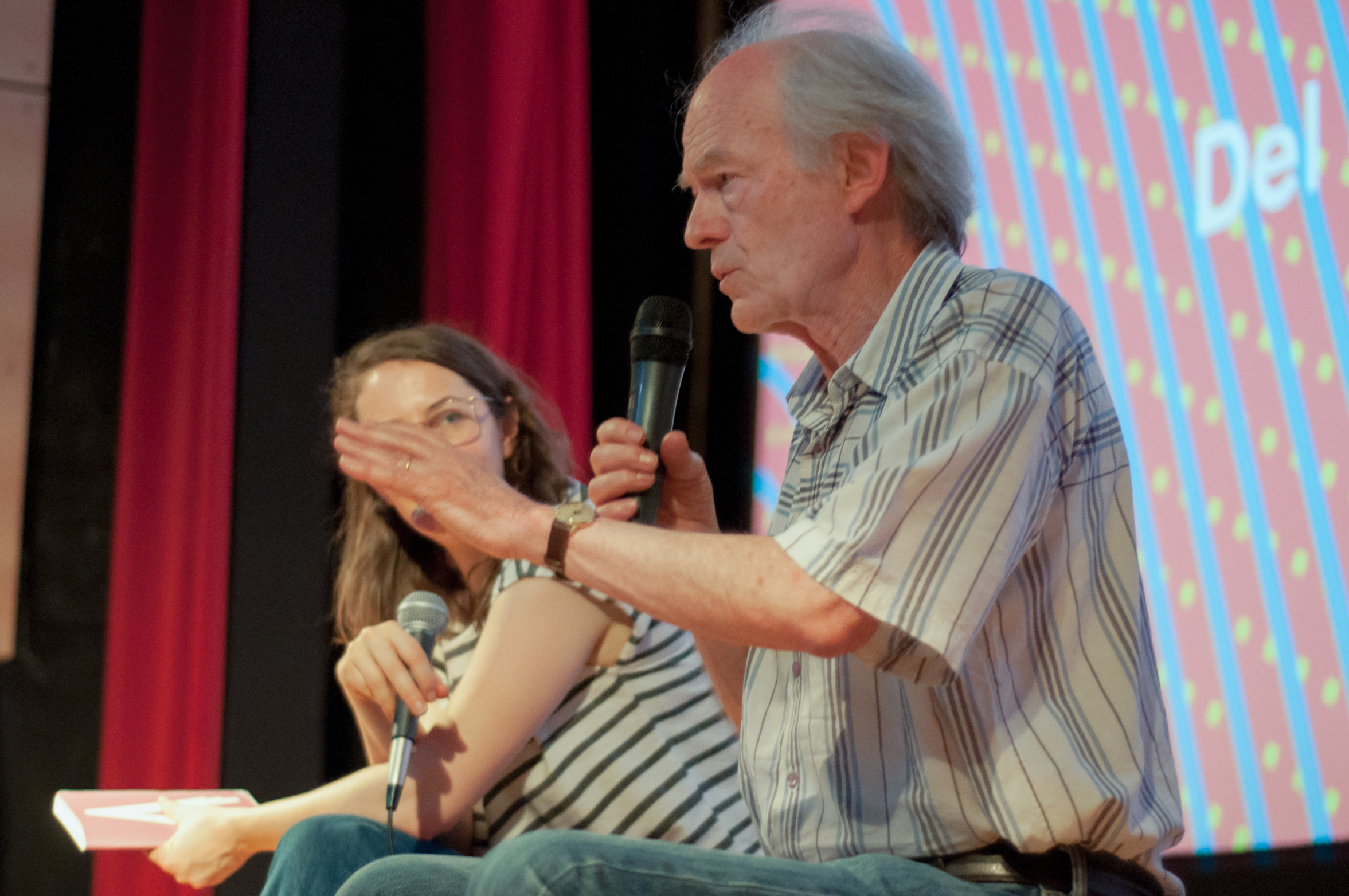 Ambulante Festival. Jean Meyer giving a talk at the French Institute of Latin America.